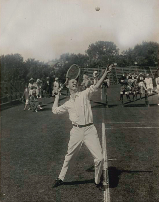 American tennis player William M. Johnston